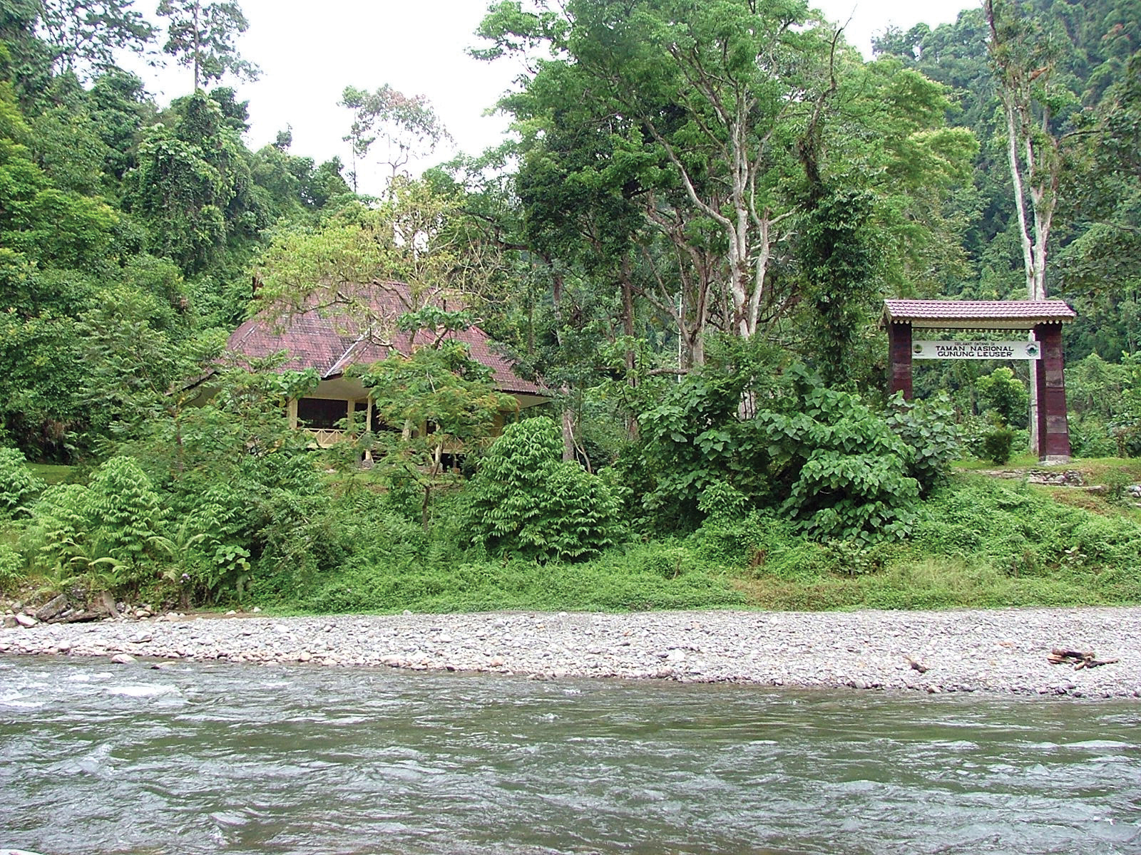 Own work.